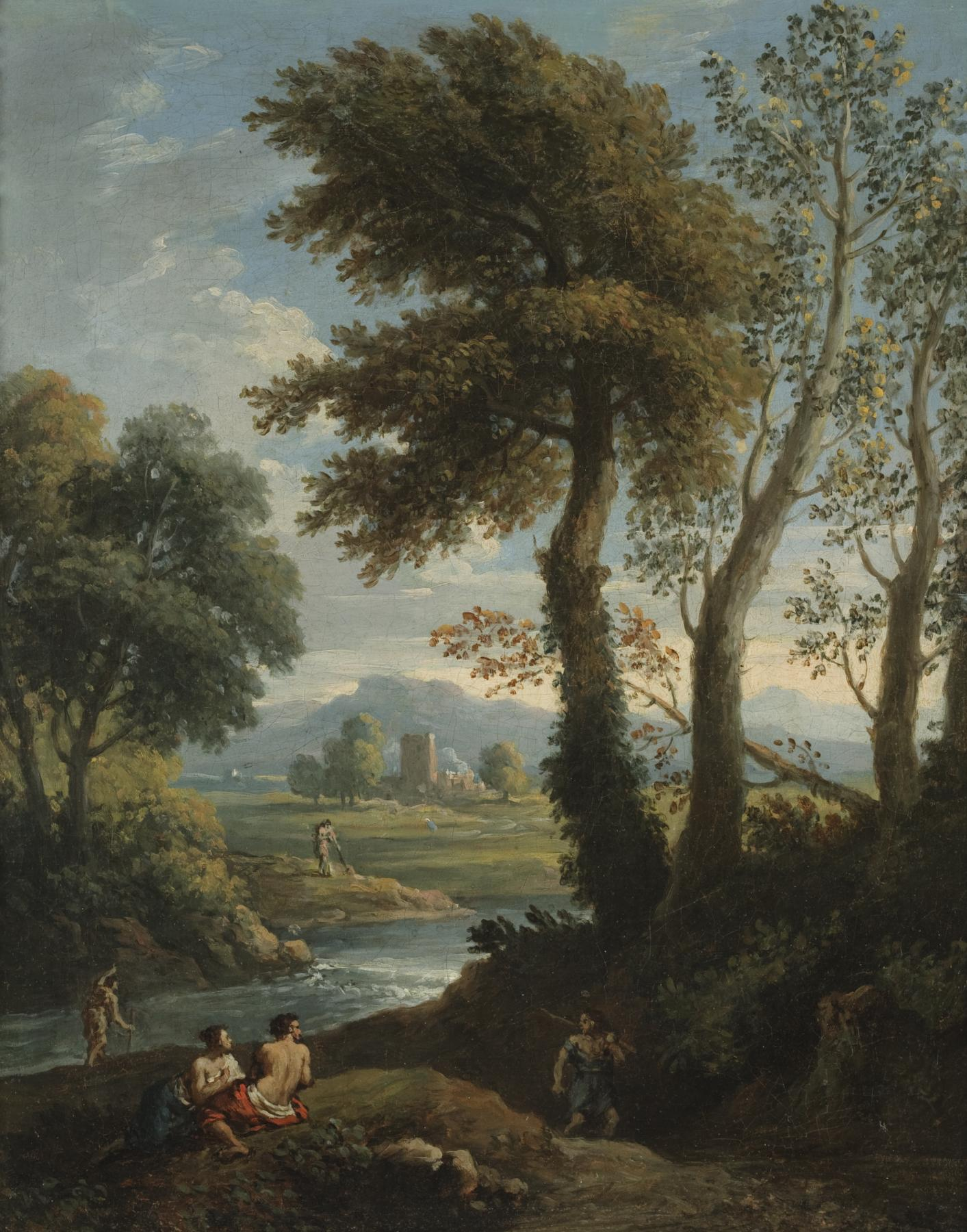 Idyllic Landscape by Jan Frans van Bloemen, called Orizzonte, Flemish, c. 1700-1725, oil on canvas, Museum of the Shenandoah Valley